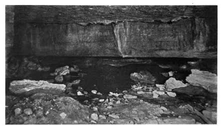 A glimpse of the interior of Jacob's Cavern